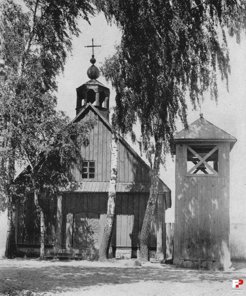 Wooden protestant church of Kochanów (Głuchów), built in the 19th century by German colonists, in service until ca. 1945. Photo taken before 1939.